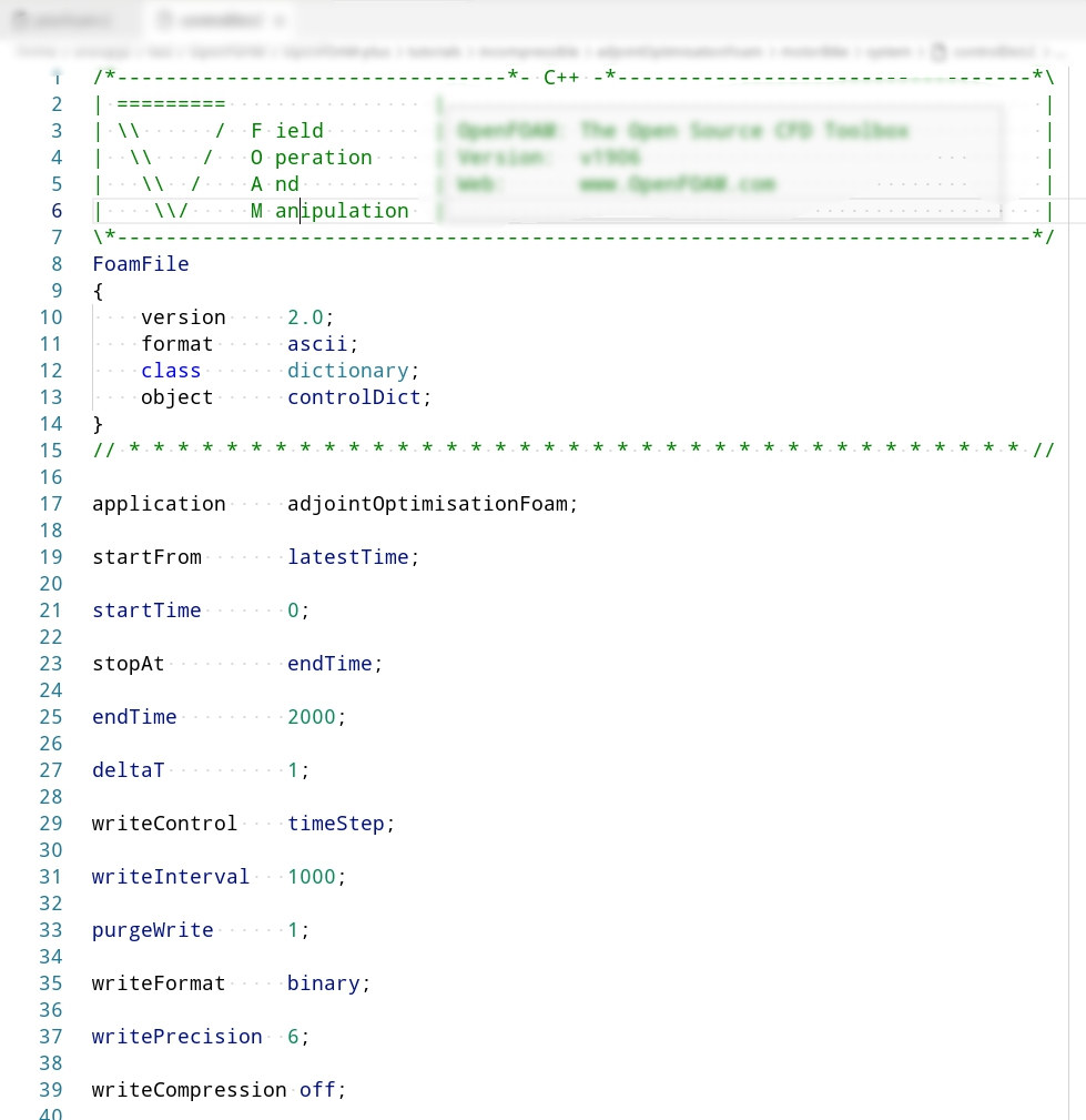 Hide unnecessary information